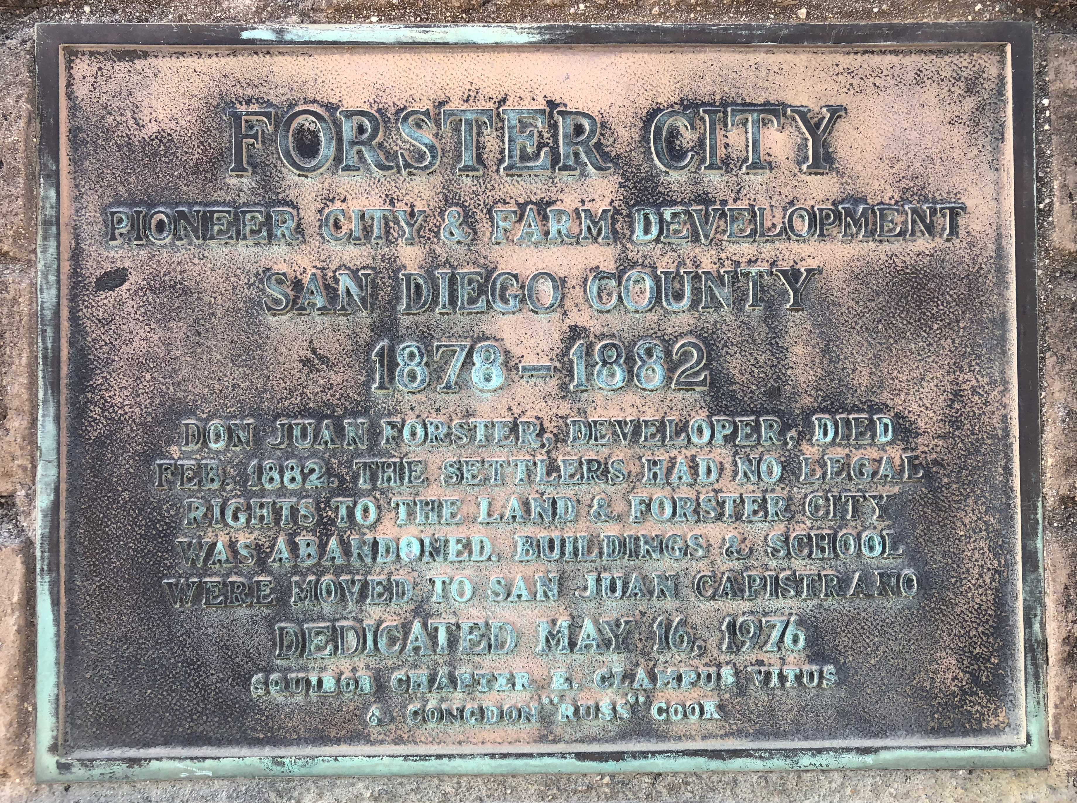 E Clampus Vitus plaque commemorating former location of Forster City